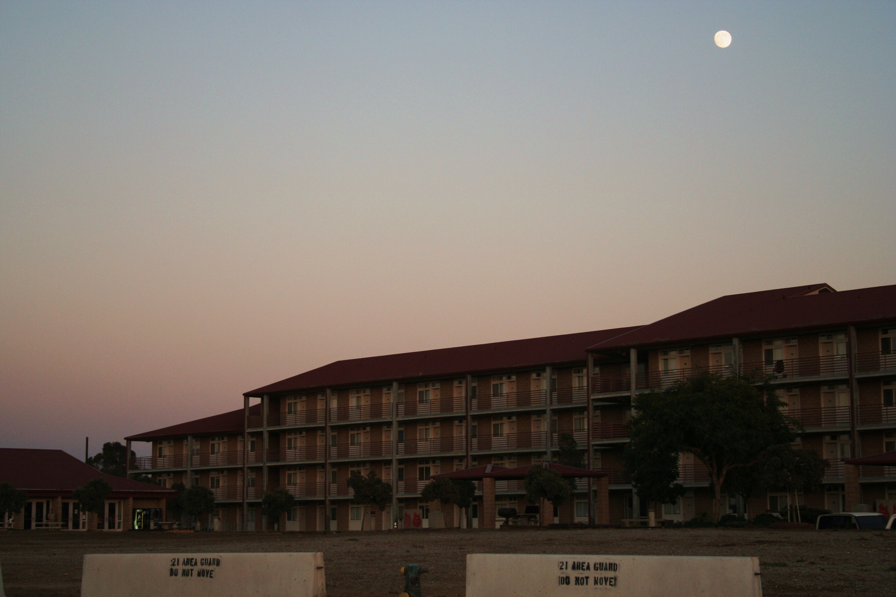 A photograph of Camp Pendleton at sunset